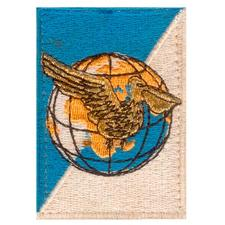 regimental badge of the 1st Logistics Brigade.